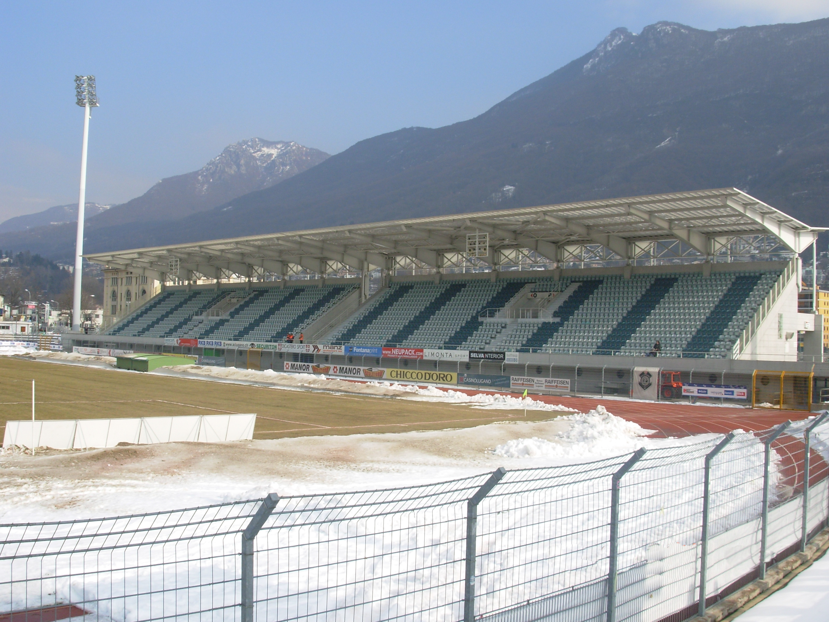 The Monte Bré stands in the football stadium Cornaredo in Lugano, Switzerland. Picture taken before the game FC Lugano - BSC Young Boys Berne, February 2006